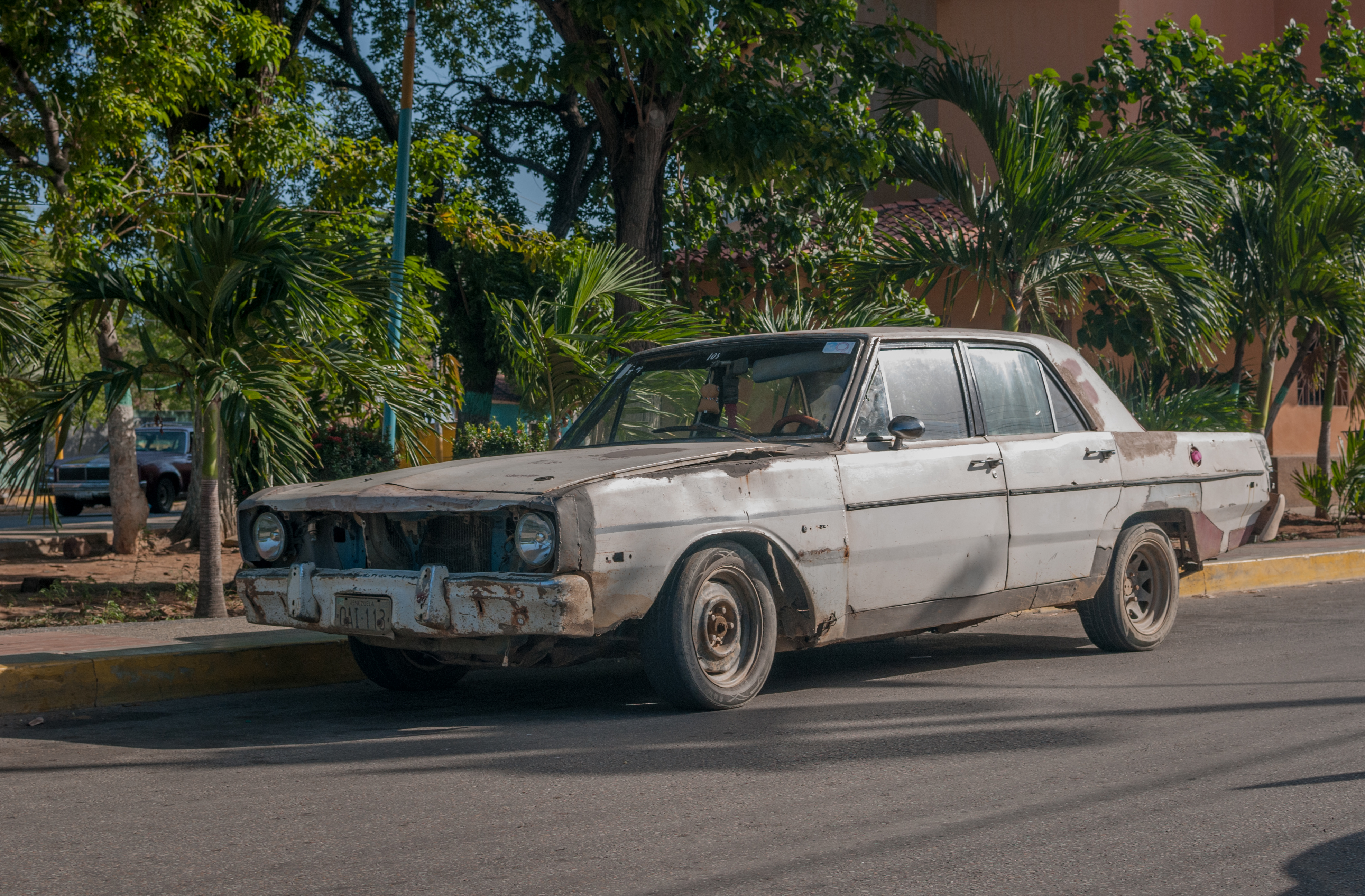 Dodge Dart 1972 in Margarita Island.